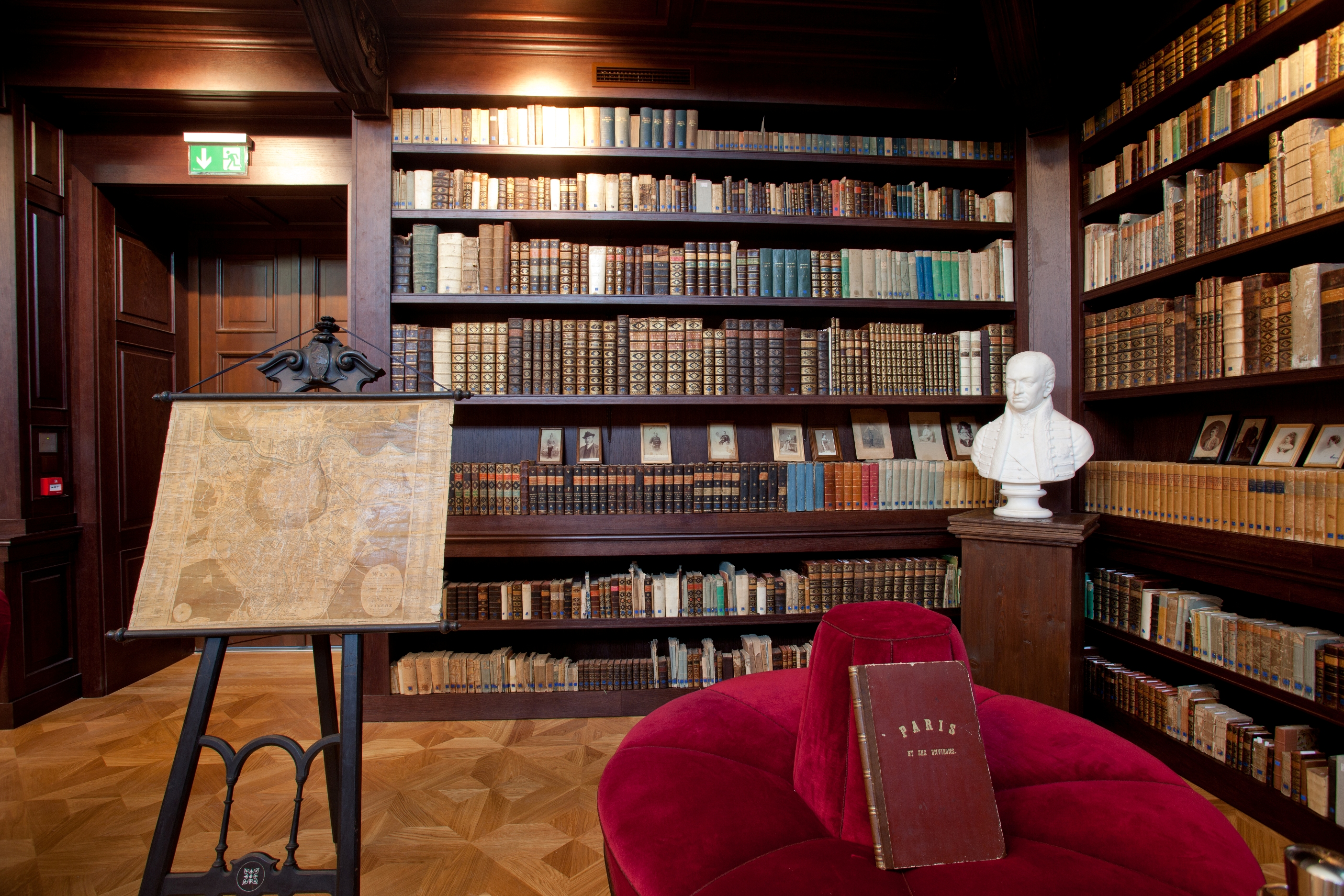 The historical library of the Apponyi genus (managed by the SNL), located in situ in Oponice manor-house